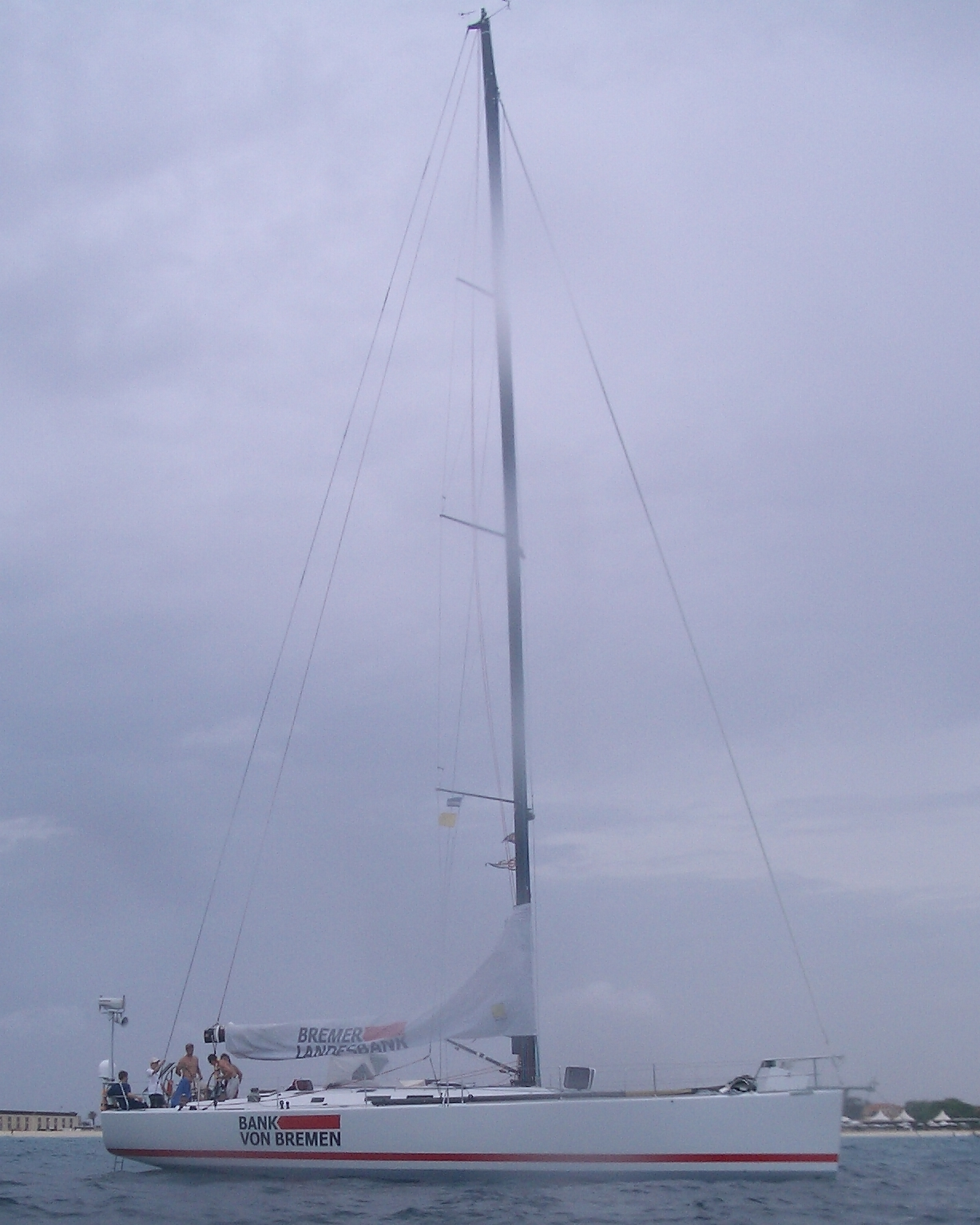 The sailing vessel Bank von Bremen from Germany at Cape Verde.